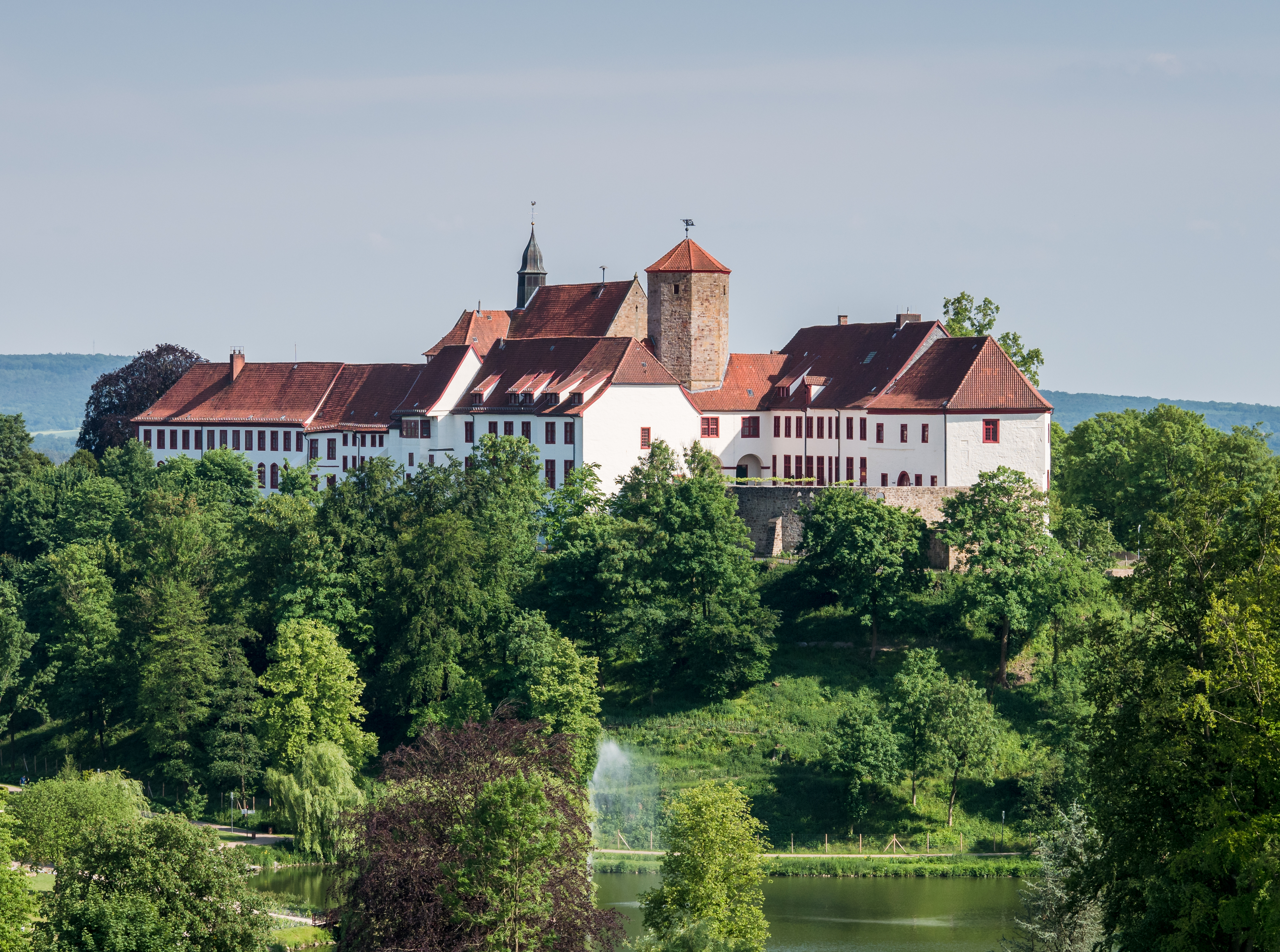 Iburg Castle as seen from the LaGa tower. Bad Iburg, Osnabrück Land, Lower Saxony, Germany